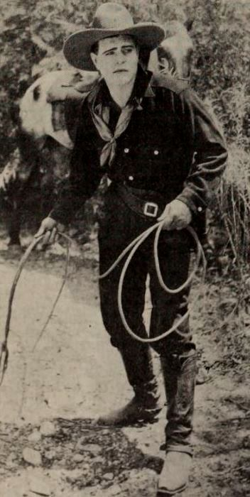 Still from the American western film serial Thunderbolt Jack (1920) with Jack Hoxie, on page 82 of the September 25, 1920 Exhibitors Herald.